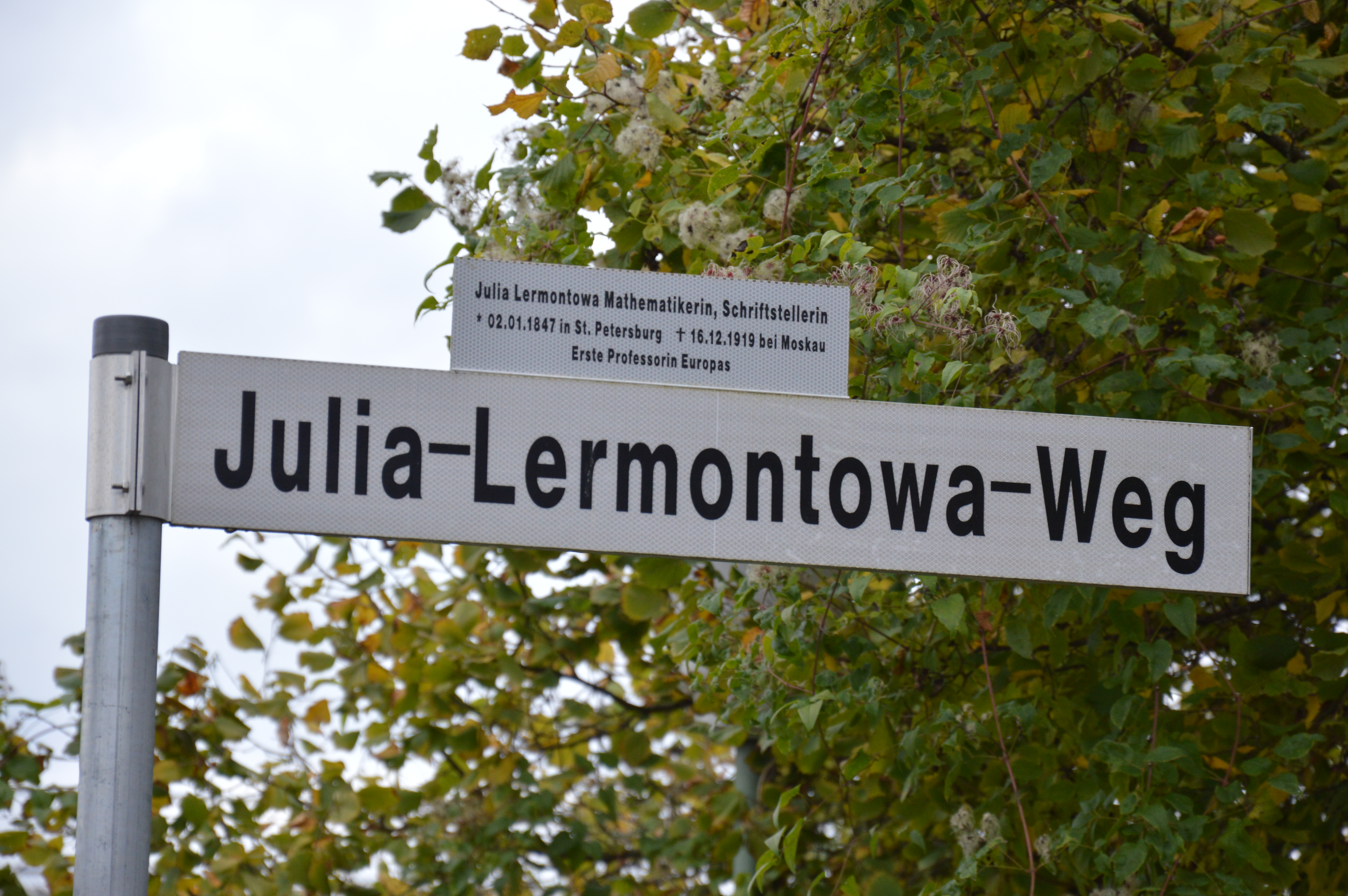 Julia-Lermontova-Weg street sign in Göttingen, Germany.